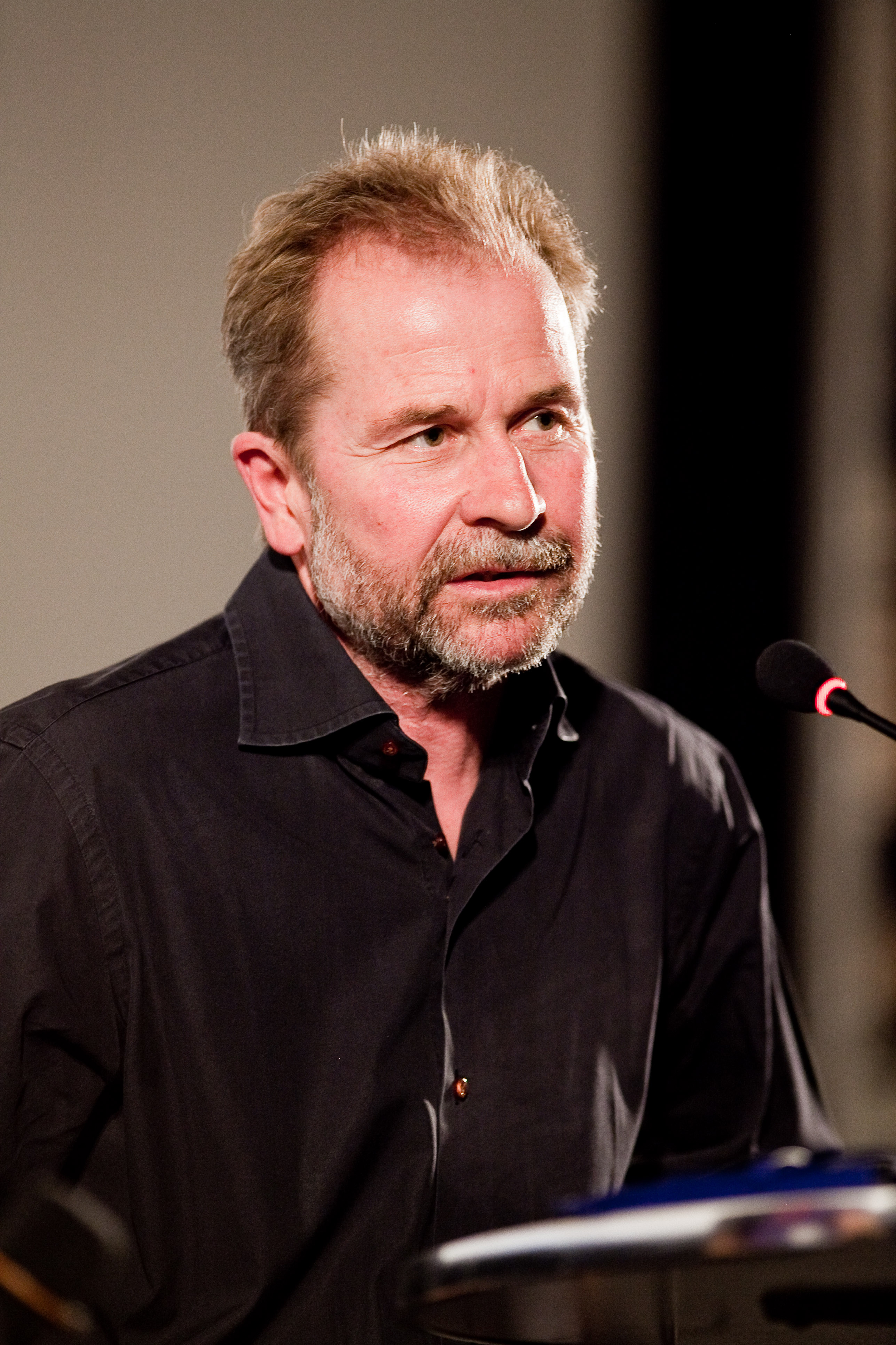 Director Ulrich Seidl giving his master class to visitors of Odessa International Film Festival, July 2013